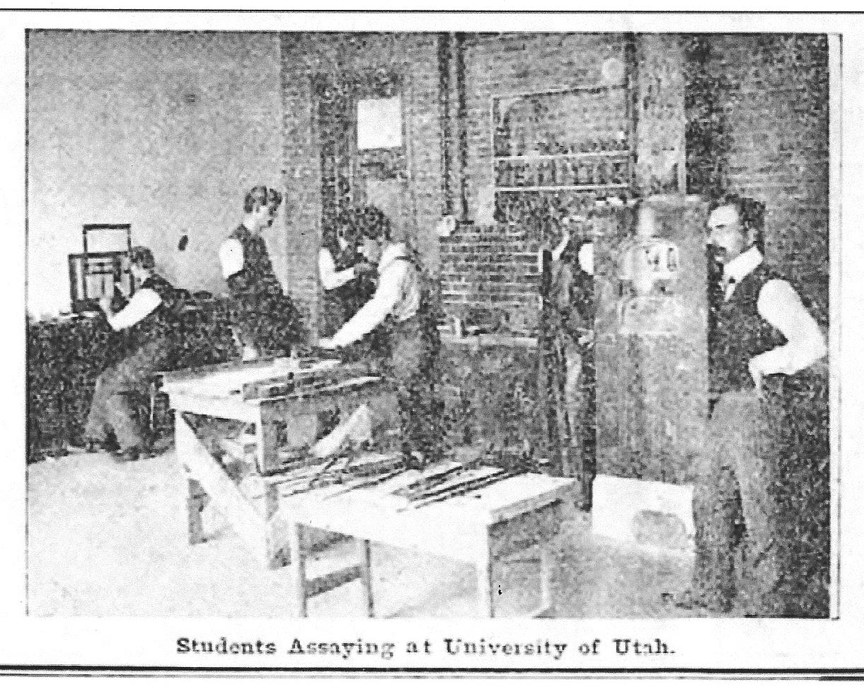 Students at Assay Lab, School of Mines, University of Utah, Salt Lake City, 1901. Assay scales at left, assay furnace at right, and students preparing ore samples at center.